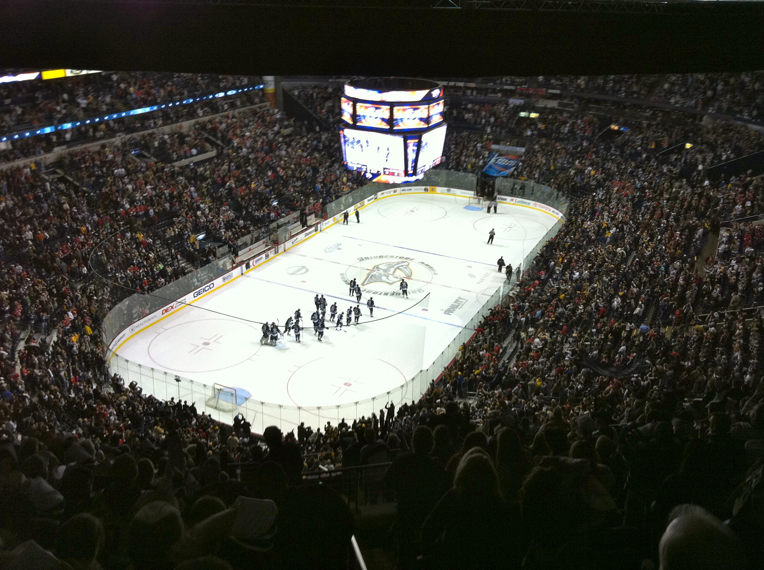 Nashville Predators vs. Chicago Blackhawks, January 15, 2011